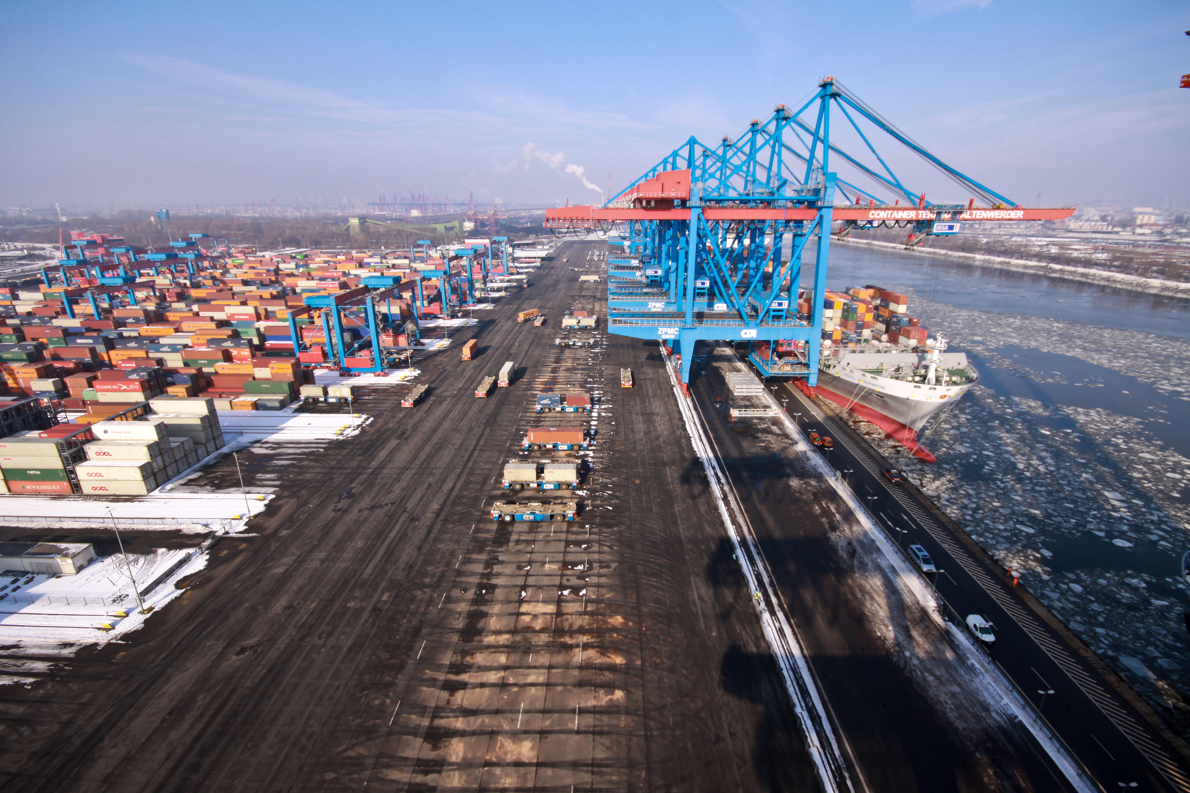 Picture from the top of one of the container bridges of the HHLA Container Terminal Altenwerder (CTA) in Hamburg. You can see the Blocklager, the AGVs and other container bridges.